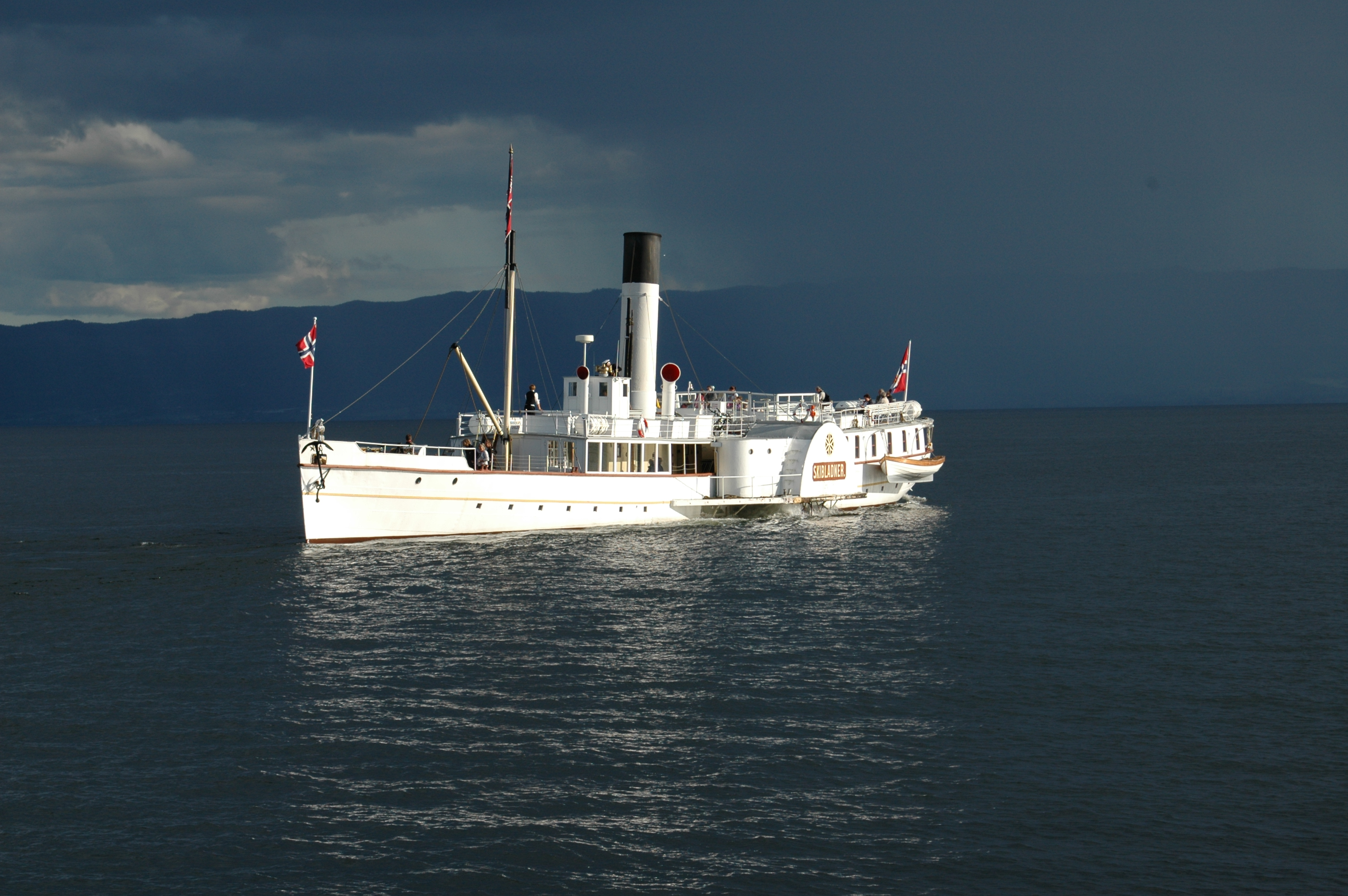 Skibladner in Hamar